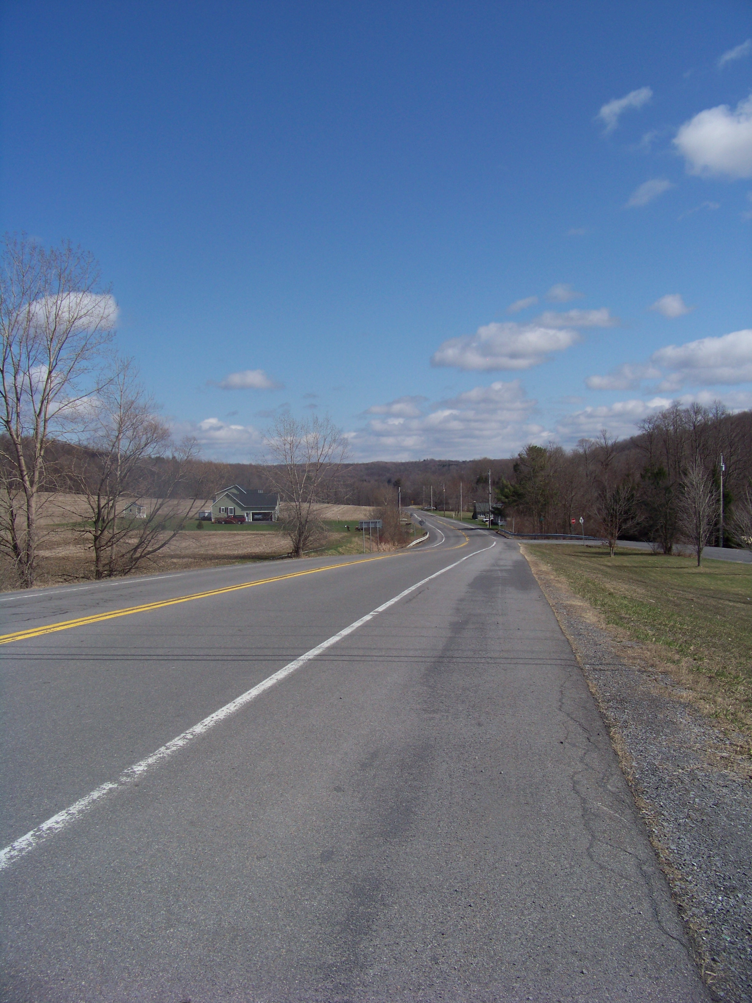 Forward Road, looking east from western terminus at NY 321